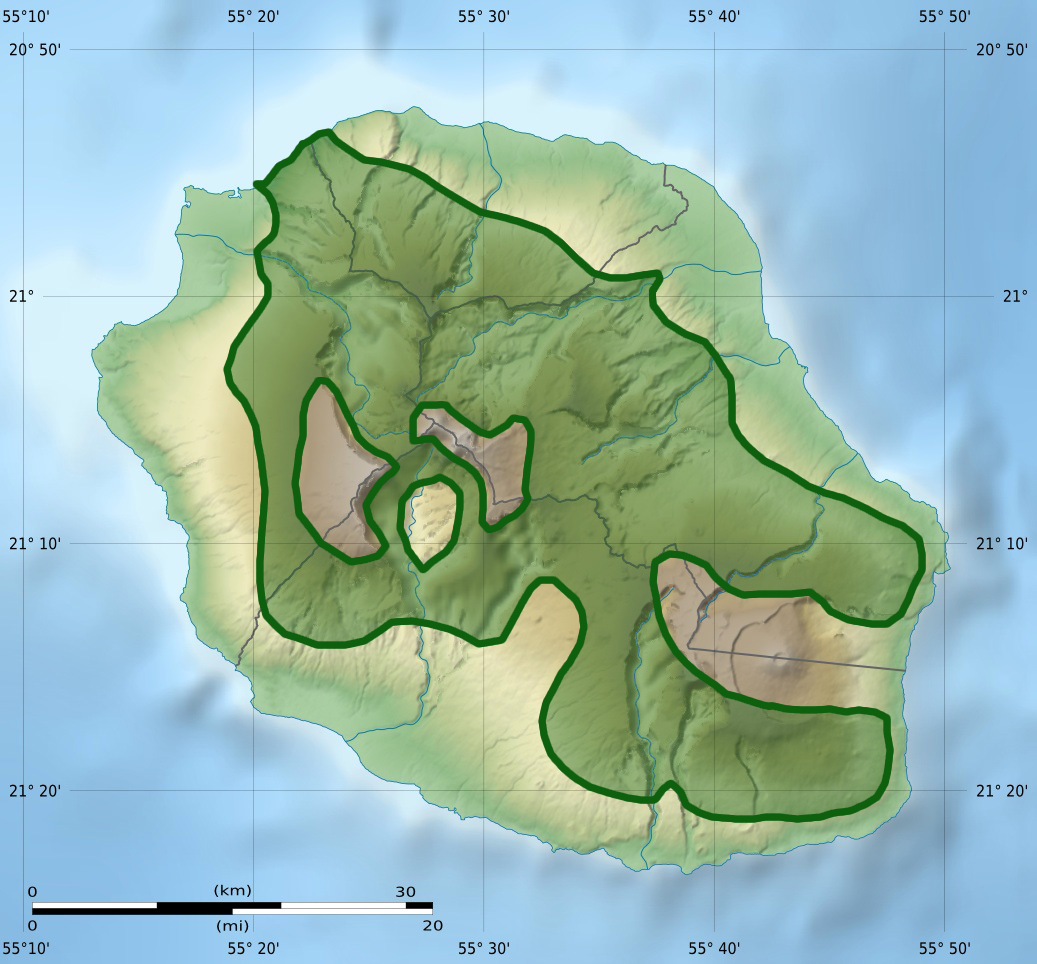 Distribution Map of the Réunion Harrier (Circus maillardi) from 1973 to 1975. Based on: E. W. Diamond (Ed.): Studies of Mascarene Island Birds. Cambrigde University Press, Cambridge 1987. pp. 311–314.